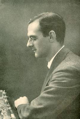 Frederick Yates, chess player, British Champion